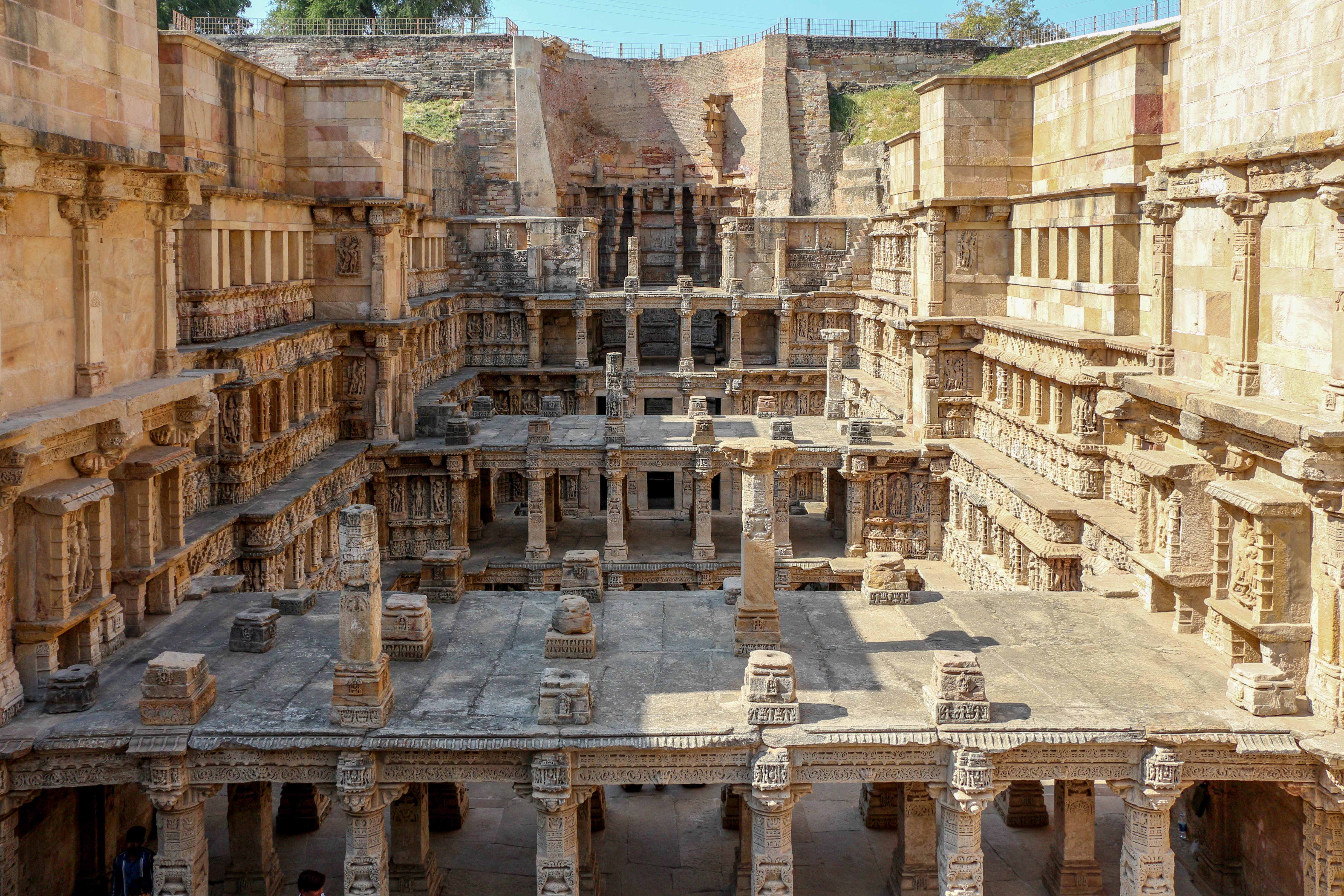 Rani ki vav, Patan, India